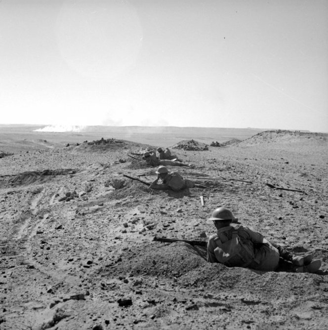 Members of the 2nd NZEF 6th New Zealand Infantry Brigade during manoeuvres in Egypt. New Zealand. Department of Internal Affairs. War History Branch :Photographs relating to World War 1914-1918, World War 1939-1945, occupation of Japan, Korean War, and Malayan Emergency. Ref: DA-00924-F. Alexander Turnbull Library, Wellington, New Zealand.